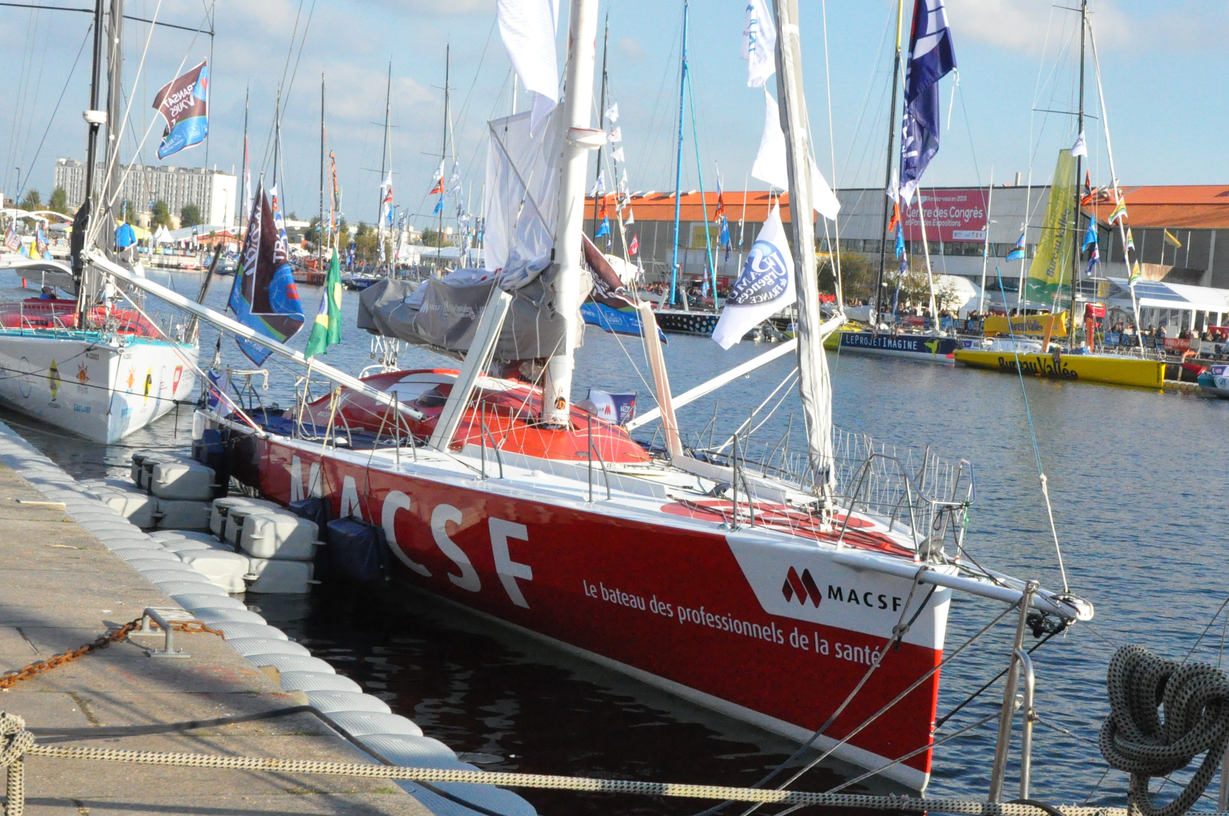 Ship in port of Le Havre (France, Normandy) 2015